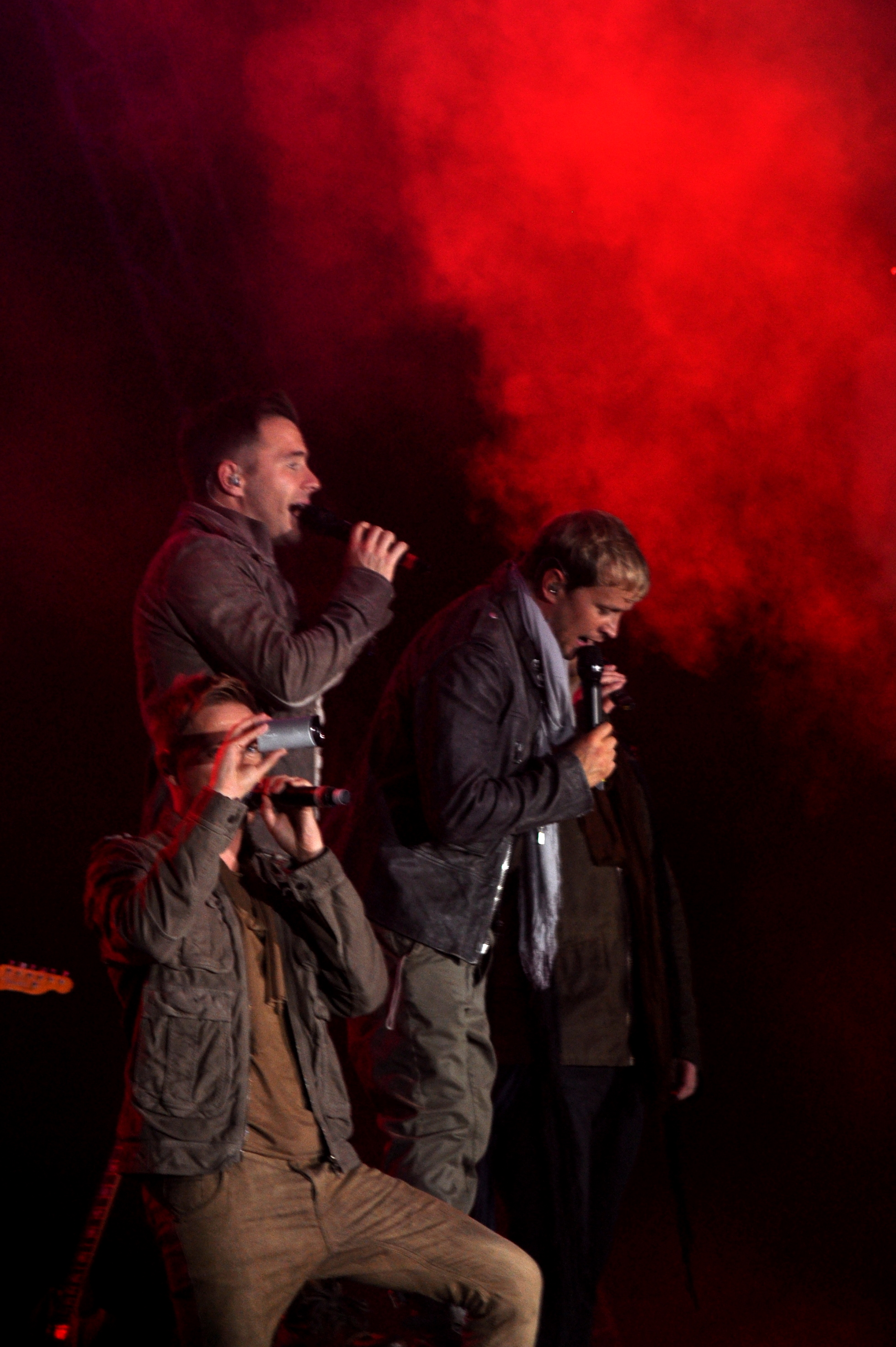 Westlife performing live on Gravity Tour in October 2011 in Hanoi, Vietnam